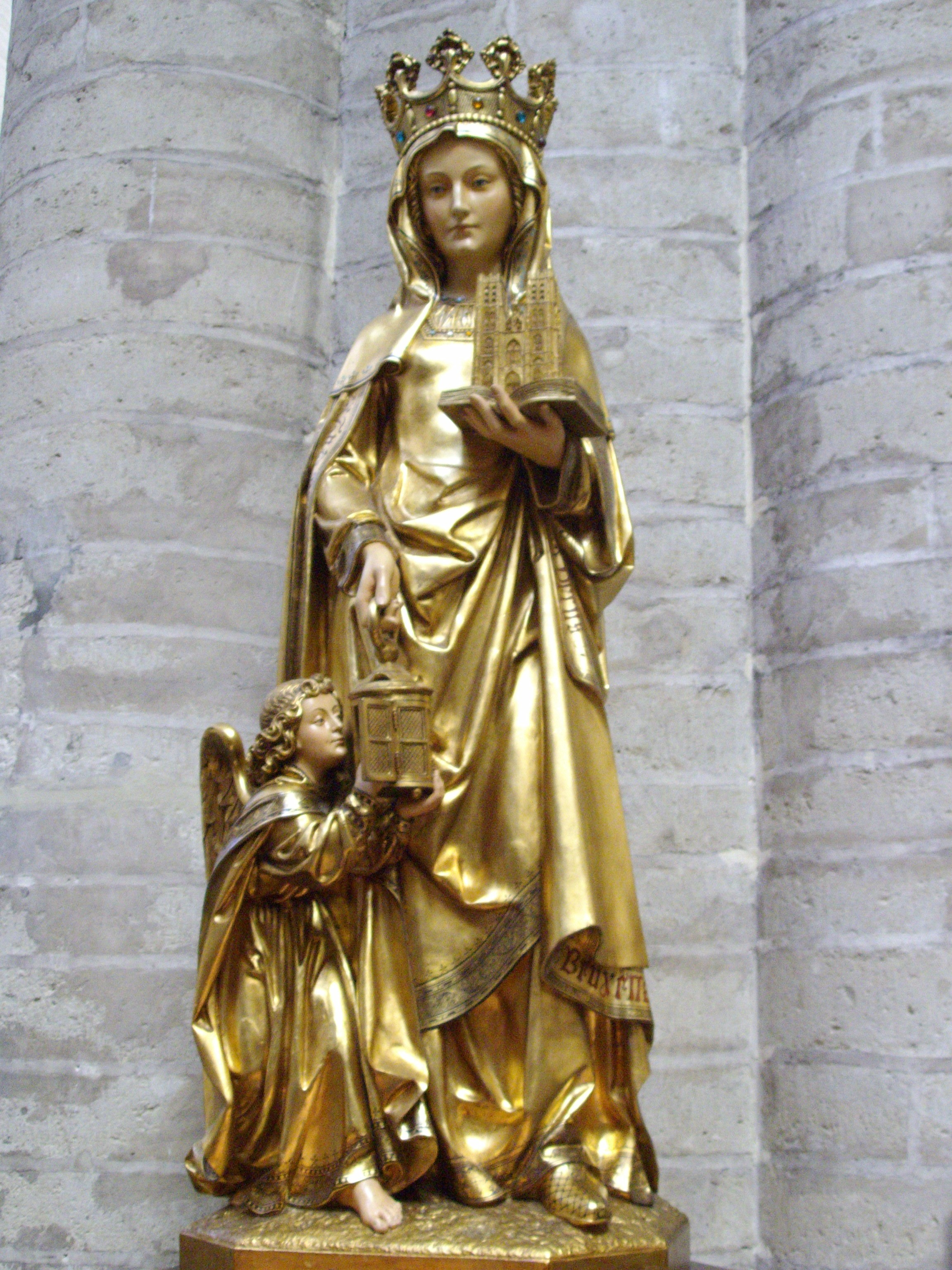 Statue of Gudule in the St. Michael and St. Gudula Cathedral in Brussels (Belgium)